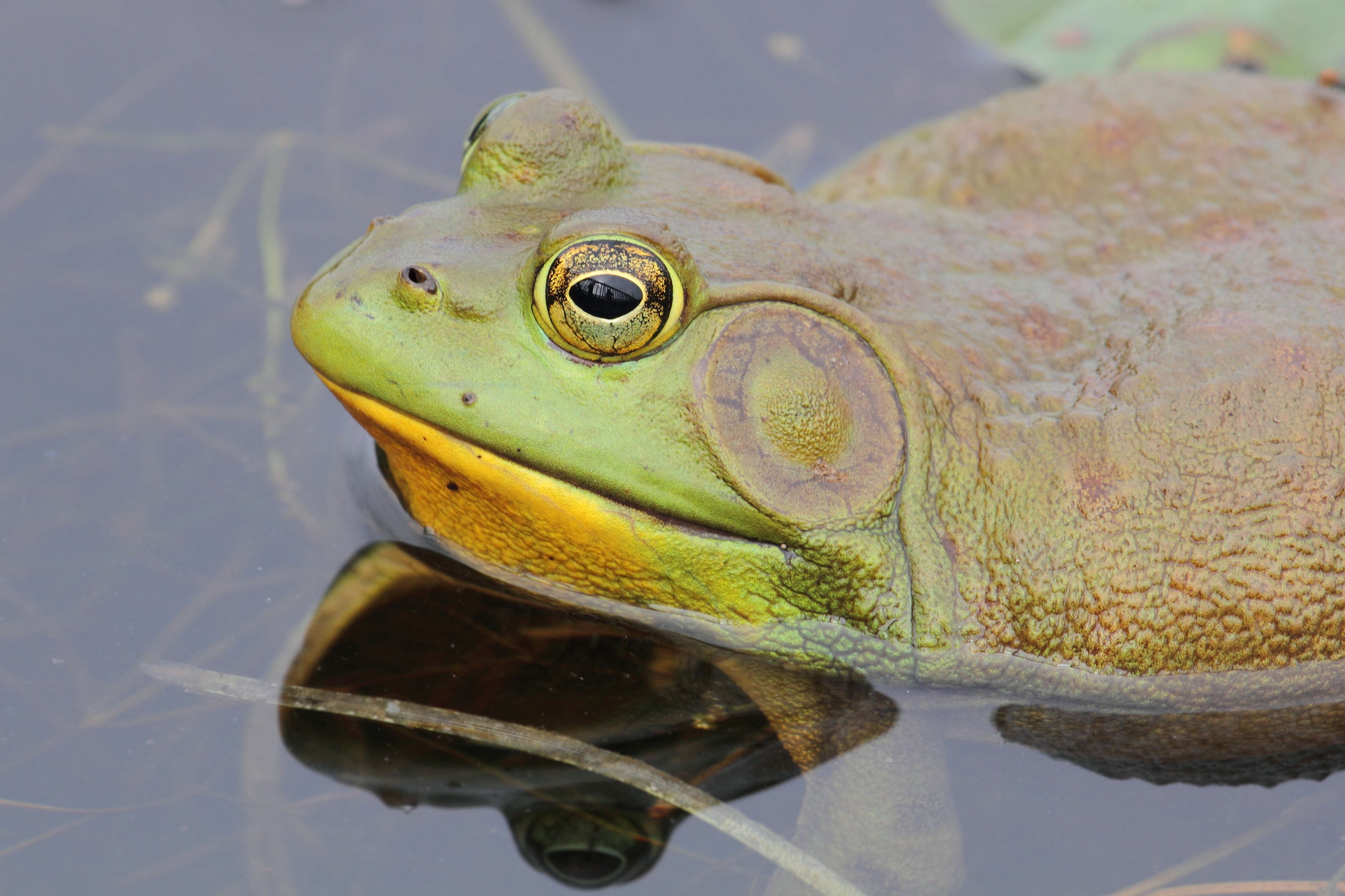 Male Bullfrog, Plaisance National Park, Quebec, Canada.